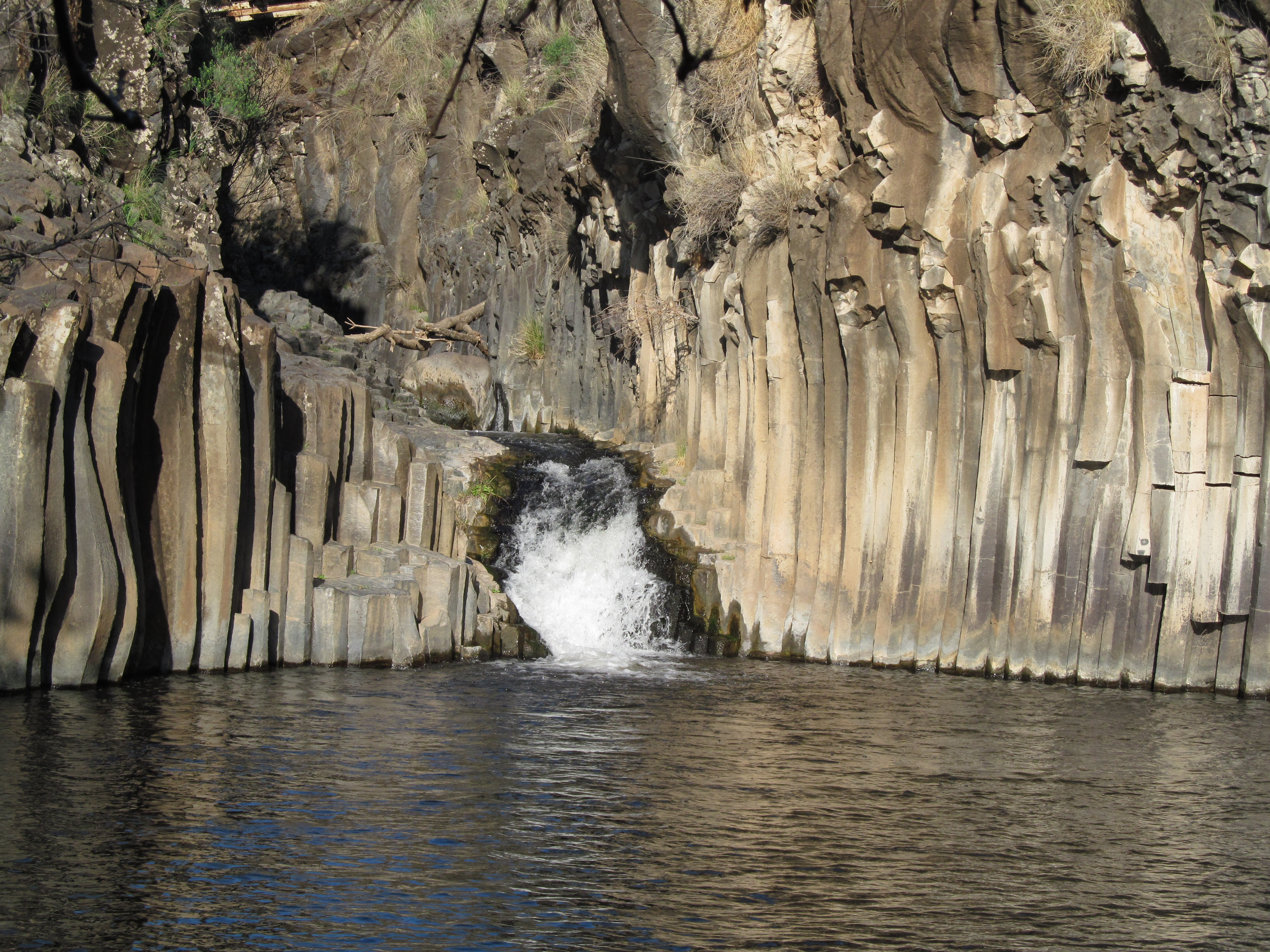 Waterfall near the Hexagon pool